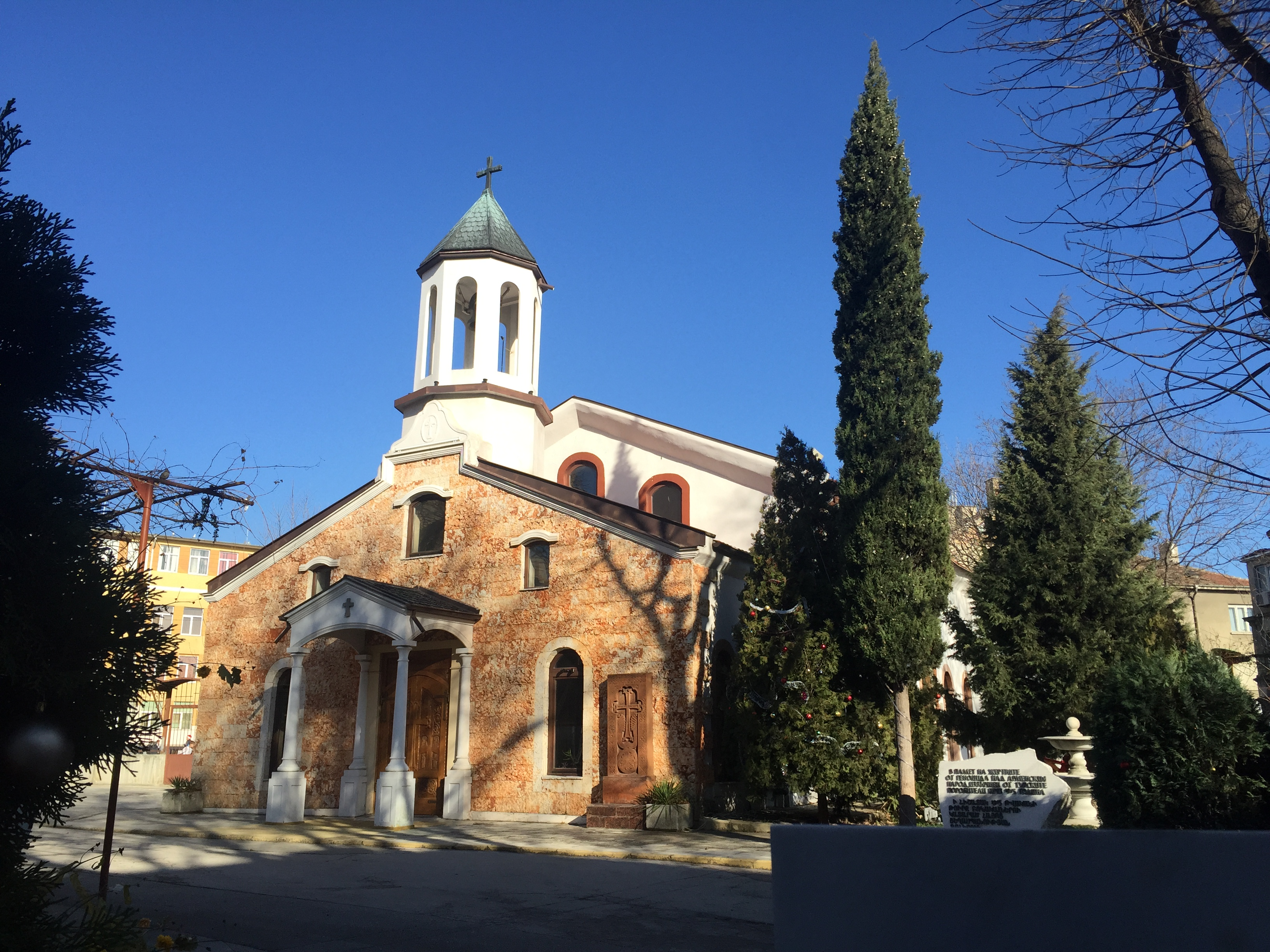 Armenian Church St Sarkis in Varna, Bulgaria